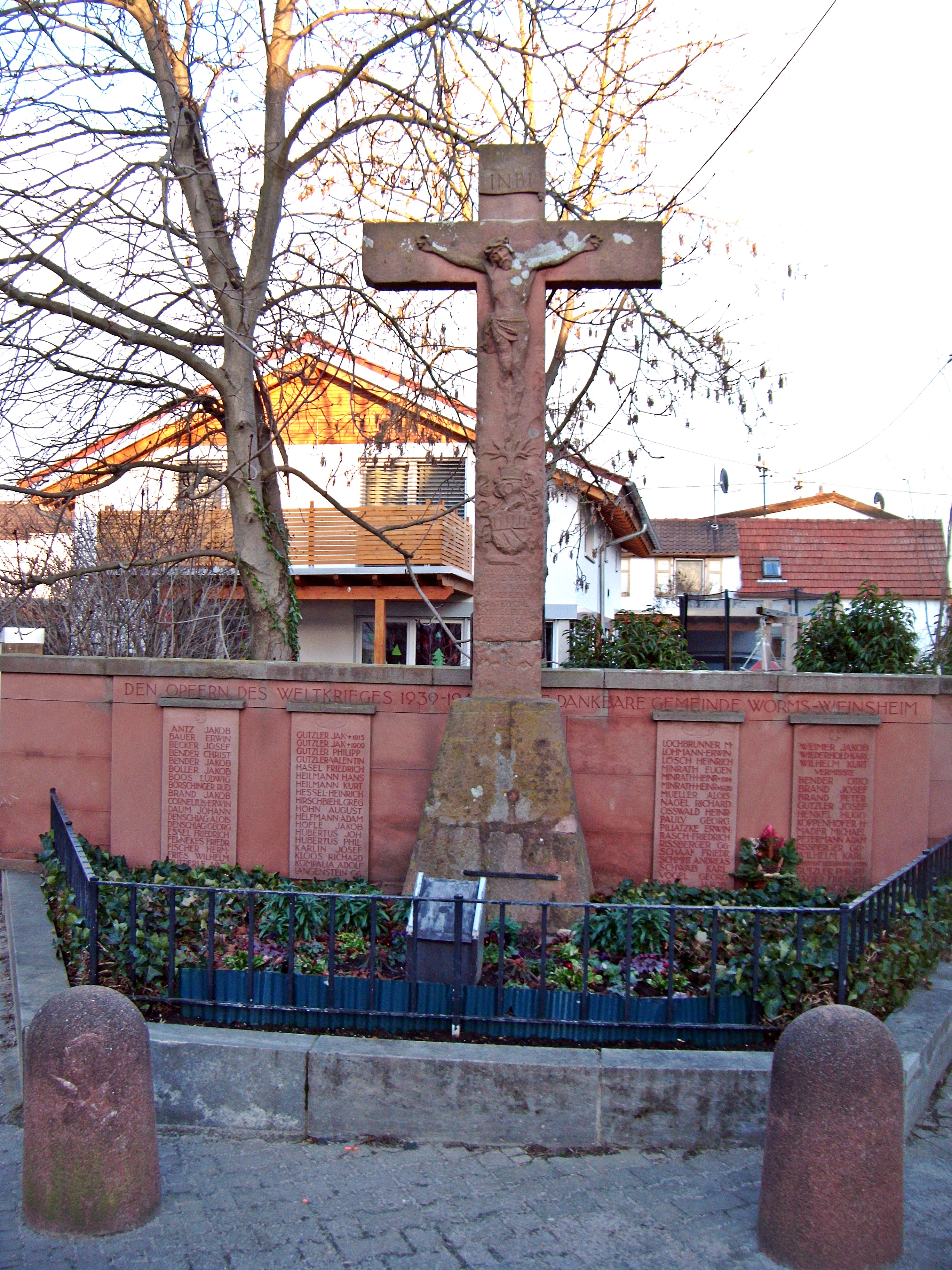 Weinsheimer Gedenkkreuz (auch Kriegerdenkmal)